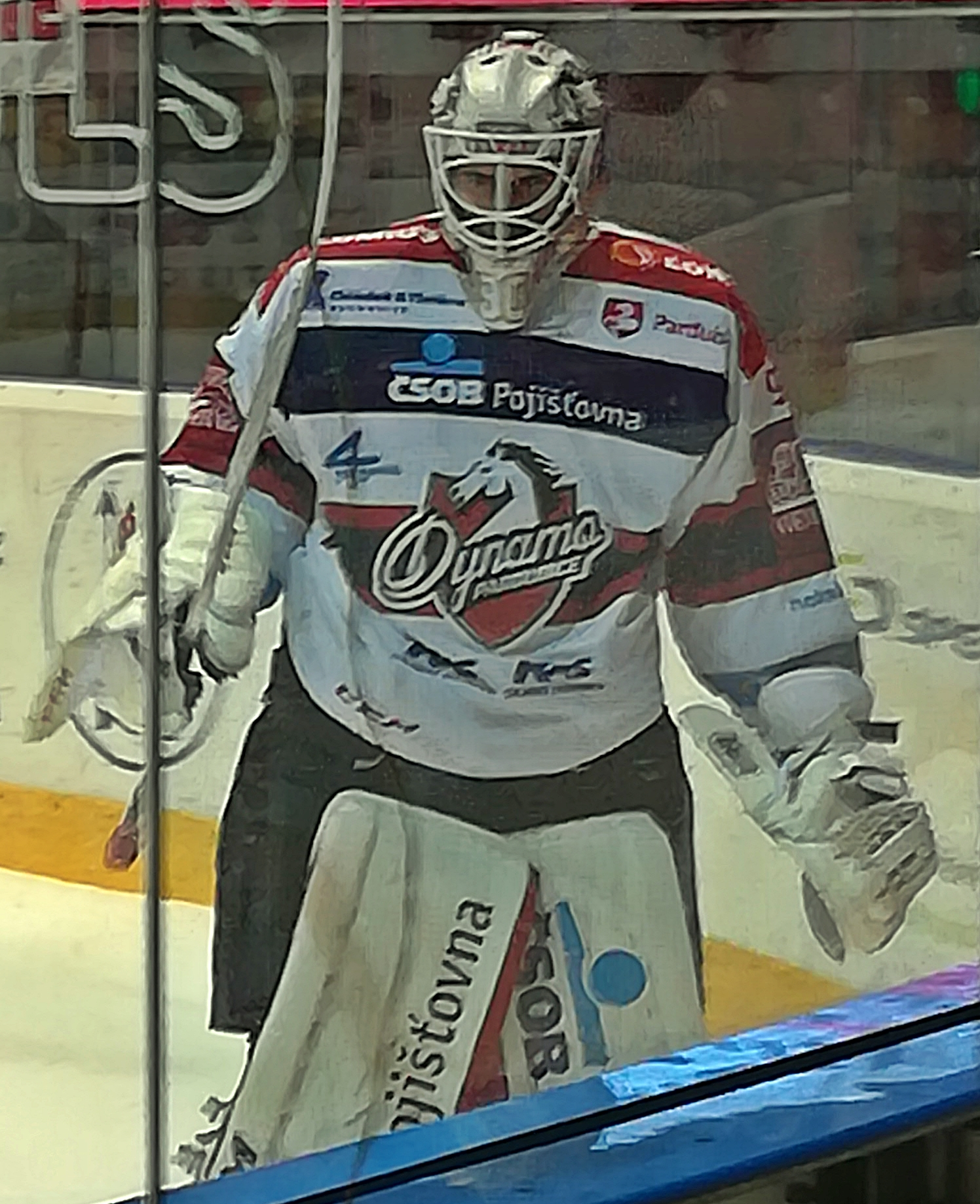 HC Olomouc - HC Dynamo Pardubice